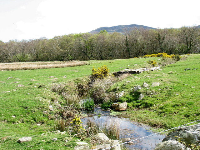 Afon Cegin with Coed Rhydau woodland in the background